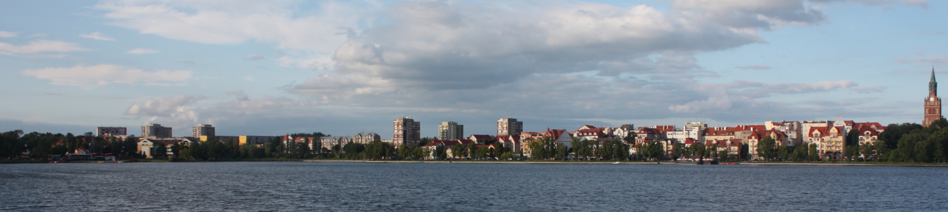 This photo of Warmian-Masurian Voivodeship was taken during Wikiexpedition 2012 set up by Wikimedia Polska Association. You can see all photographs in category Wikiekspedycja 2012. The making of this document was supported by Wikimedia Polska.